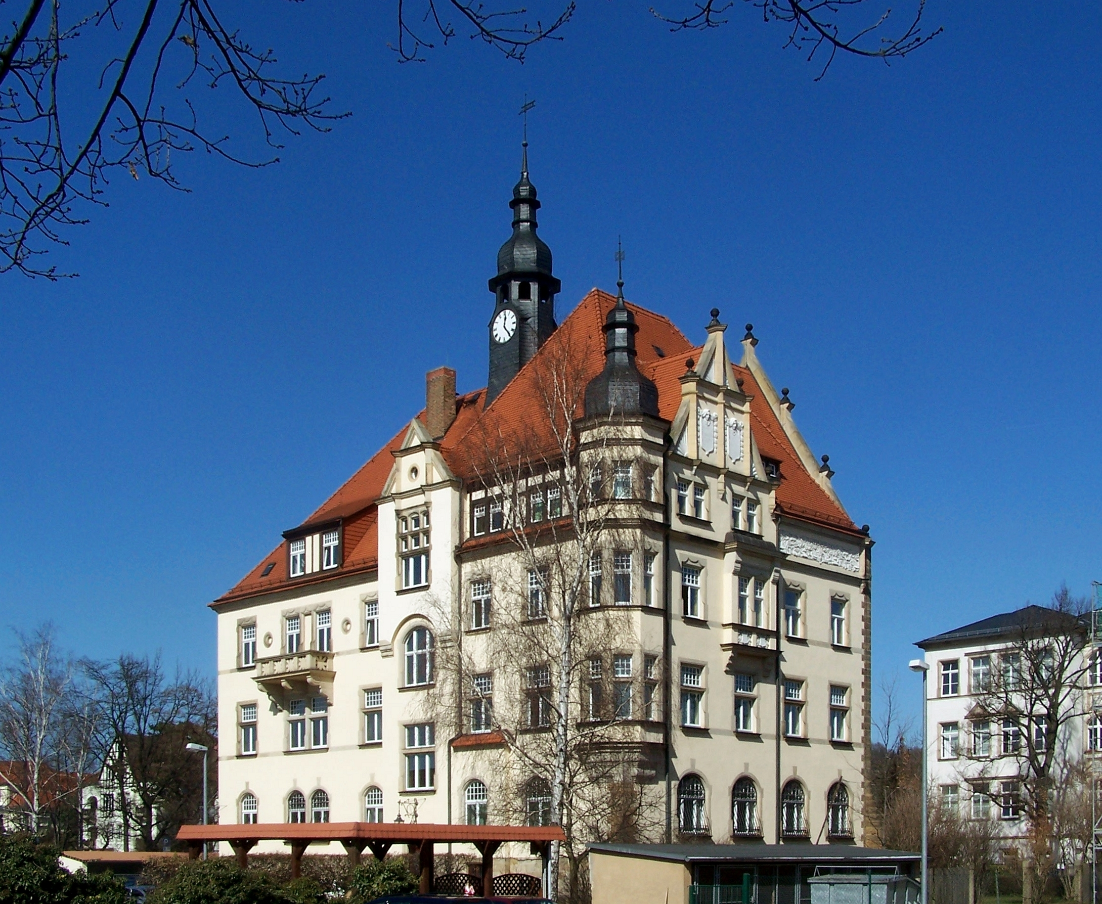 town hall of Radebeul, Germany